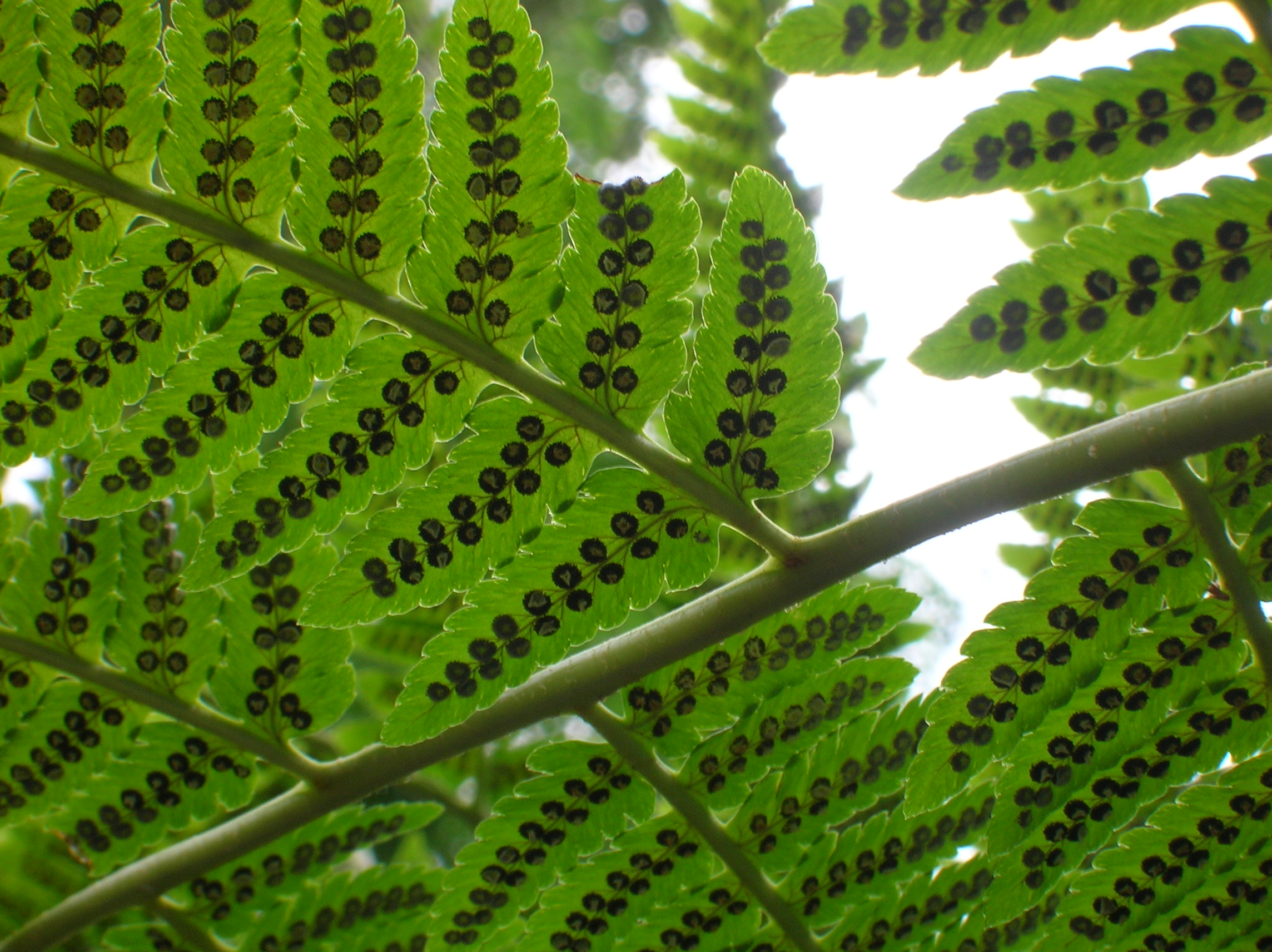 Detail of back of Dryopteris goldiana, showing sori. Photo was taken in early July, 2007.